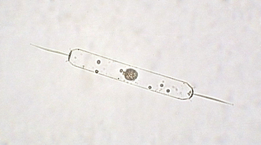 North-West Black Sea, coastal waters, at a depth of 0.5 metre